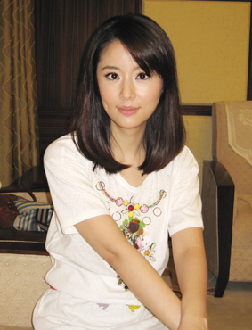 Ruby Lin participated press conference for her upcoming advertisementBân-lâm-gú: Lîm Sim-jû. 林心如